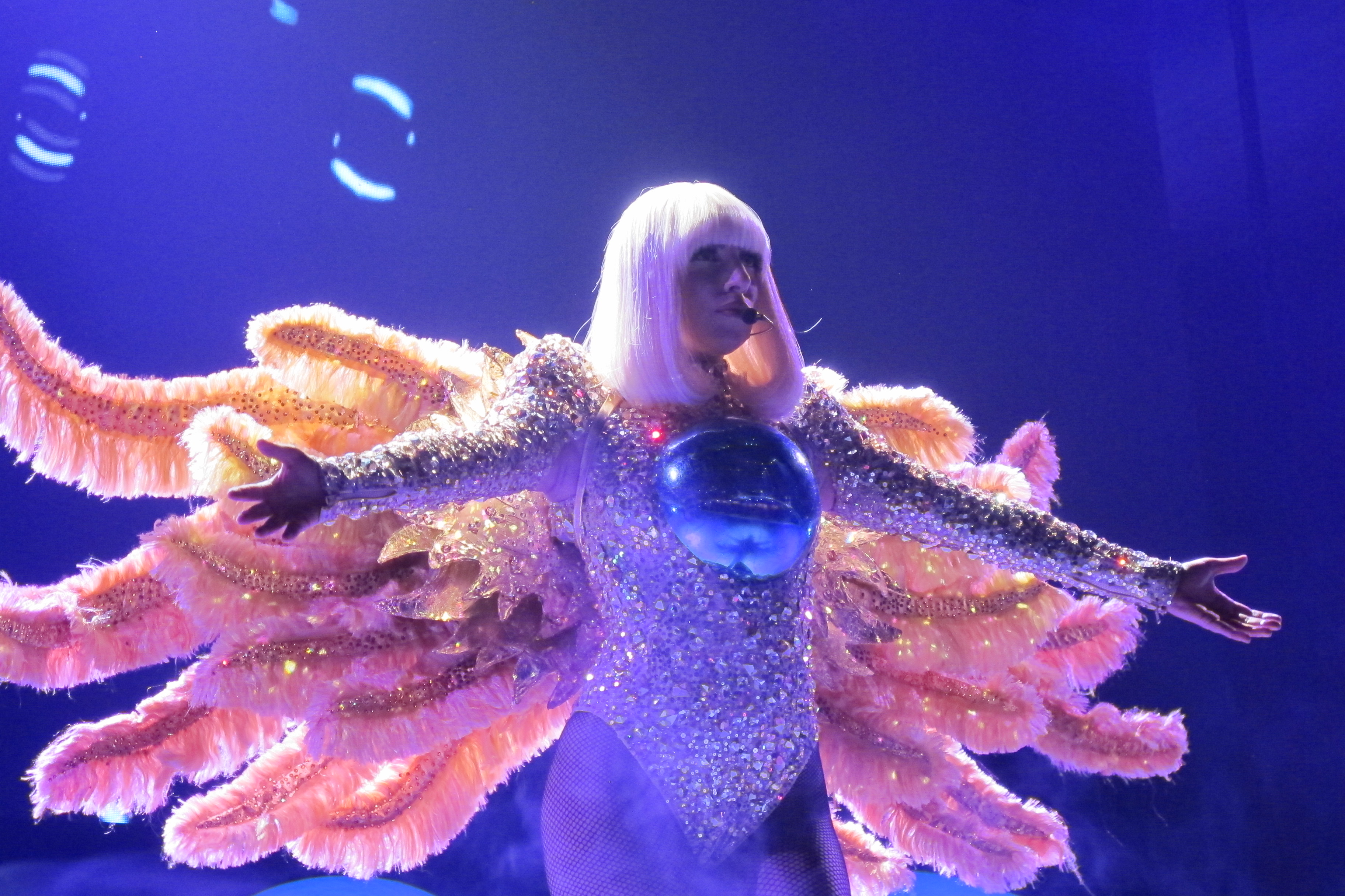 IMG_8140 Lady Gaga performing at ArtRave: The Artpop Ball of San Diego